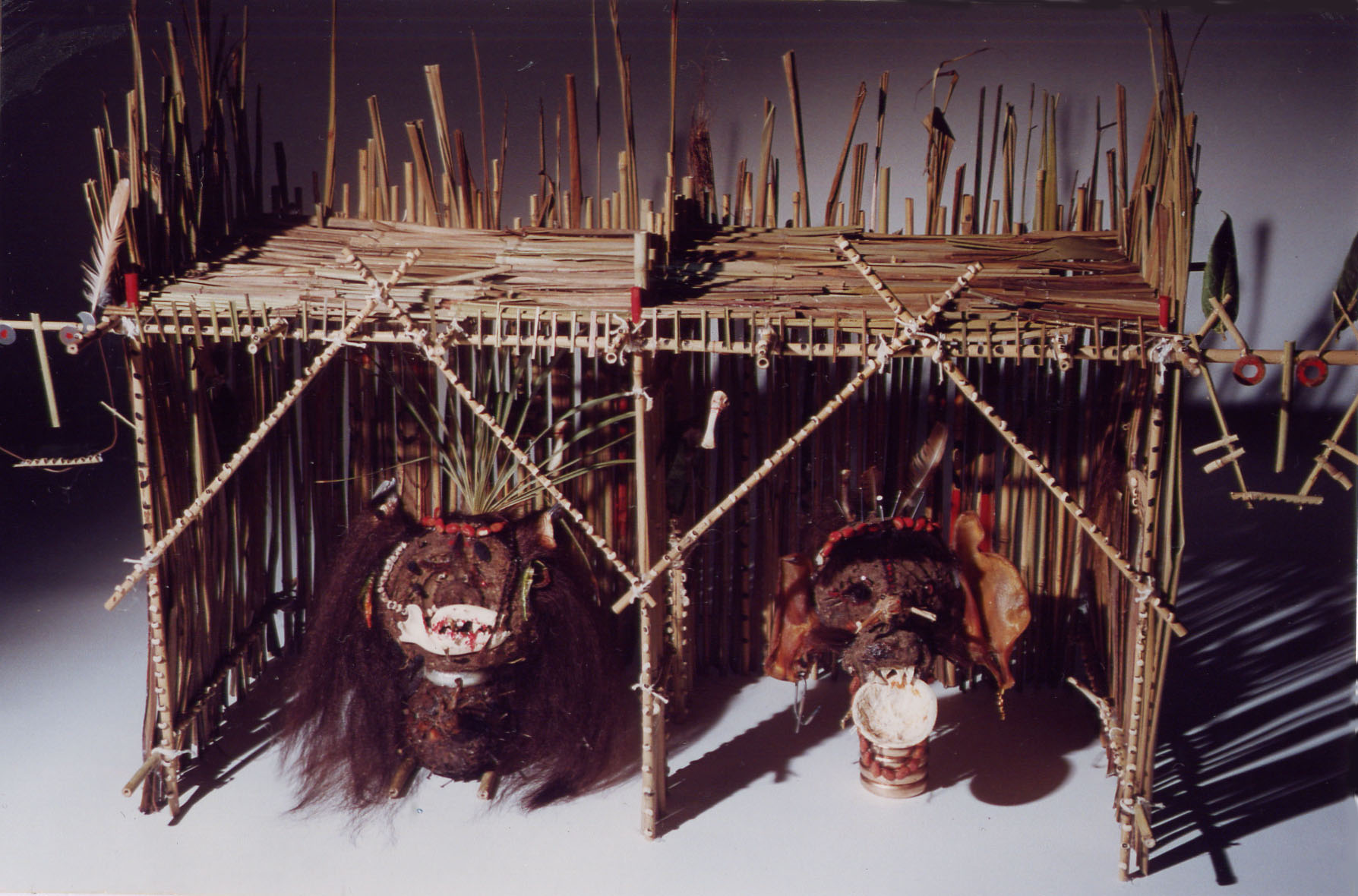 A photograph of Tribal Sculpture 'Icarus and Amadeus' by Eugene